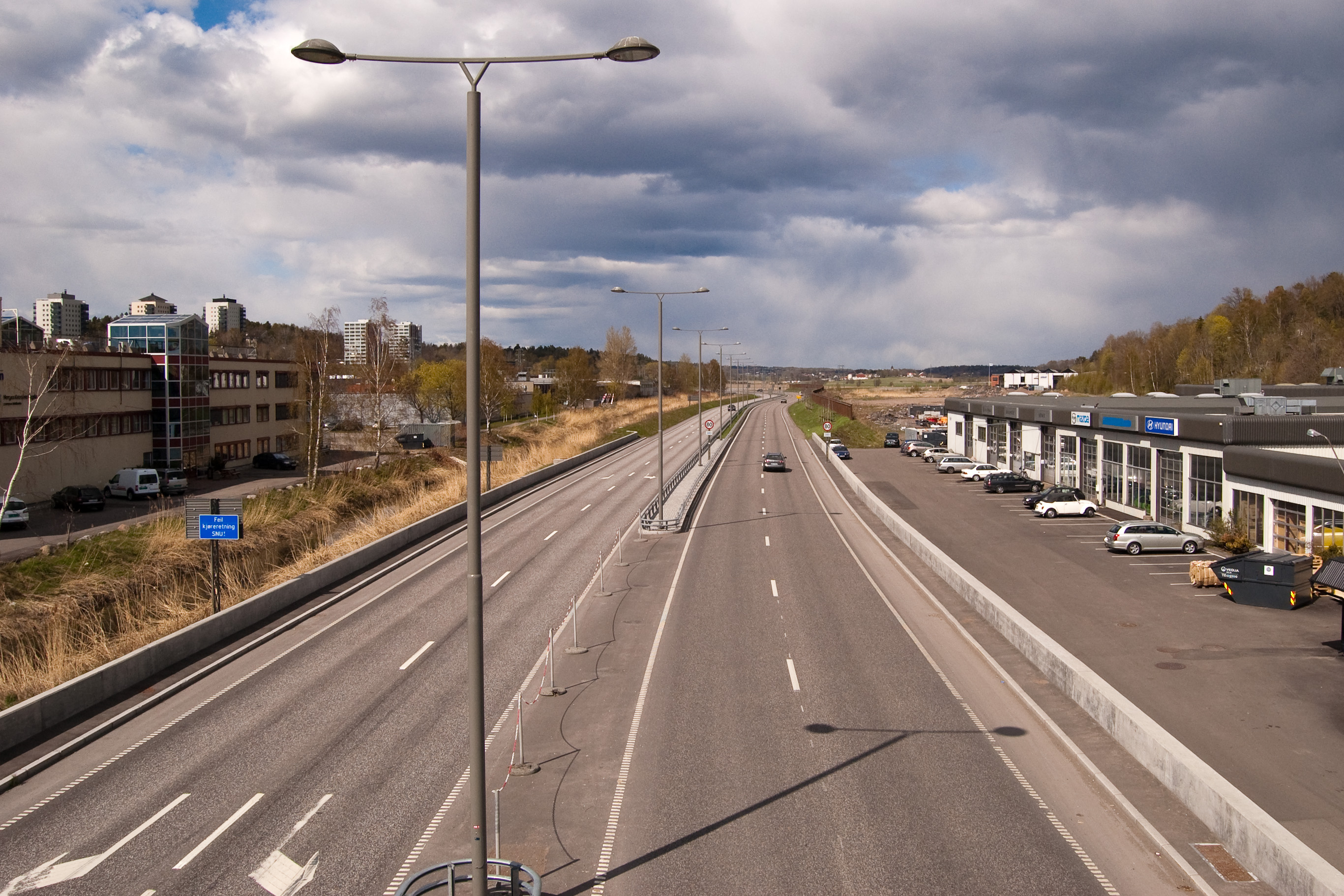 Vestfold county road 300 at Kilen, Tønsberg, Vestfold, Norway.